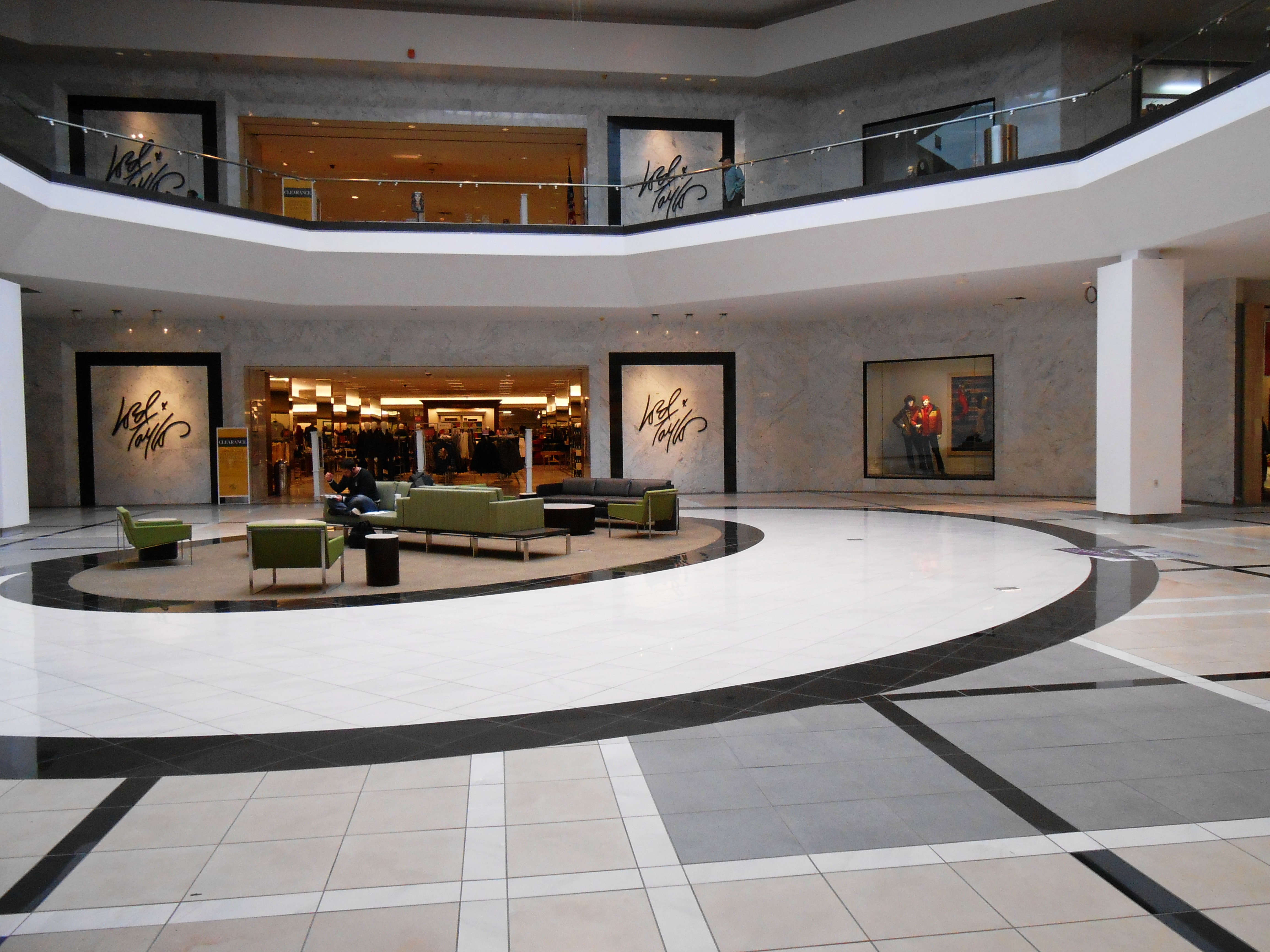 Quaker Bridge Mall Lawrenceville, NJ